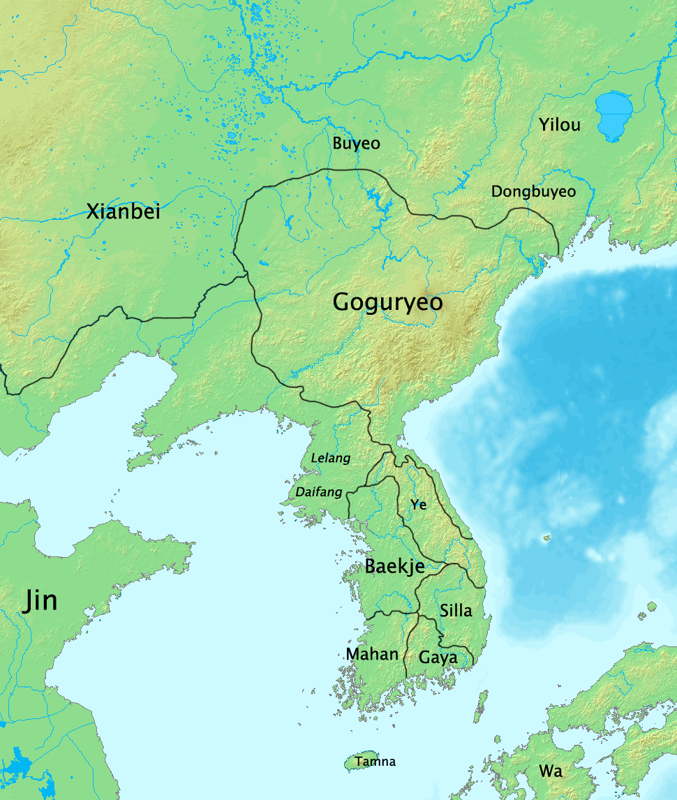 The map of history of Korea in 300